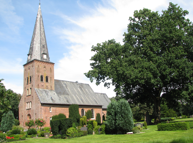 Ev.-luth. church Sunte Oluf (St. Olav) in Breklum, Germany